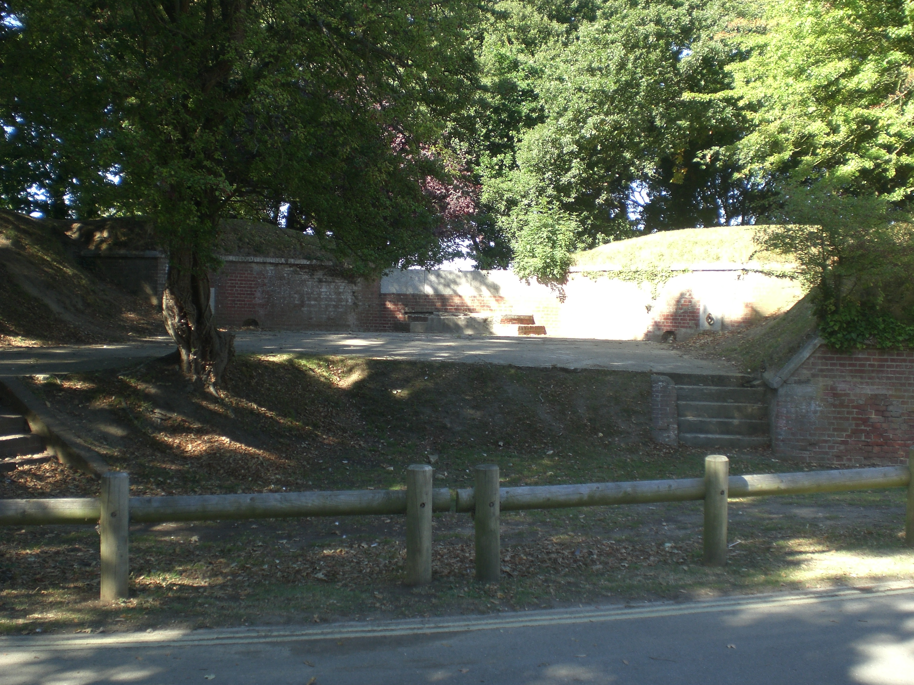 Gun position, part of Puckpool Battery located on the coast in Puckpool close to the town of Ryde on the Isle of Wight.